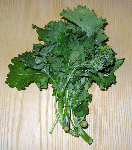 Picture of Rapini.